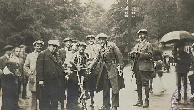 Alois Rameš 1922